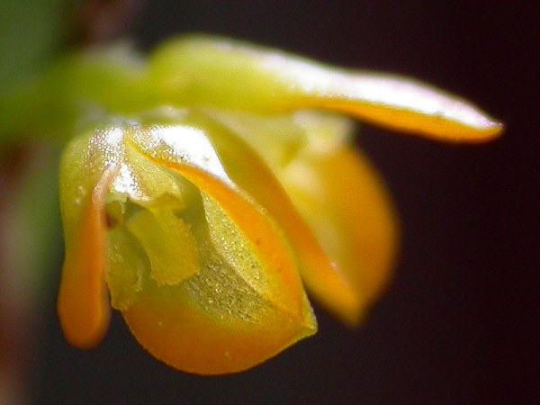 Acianthera magalhanesii syn. Acianthera bohnkeana